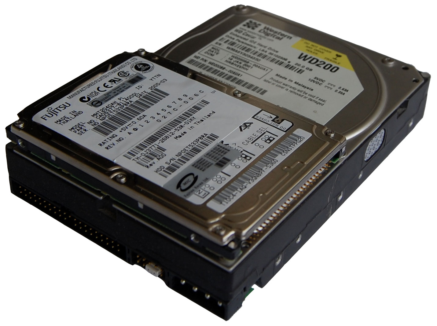 A Fujitsu 2.5" laptop hard drive sitting on a Western Digital 3.5" desktop hard drive, for comparison.